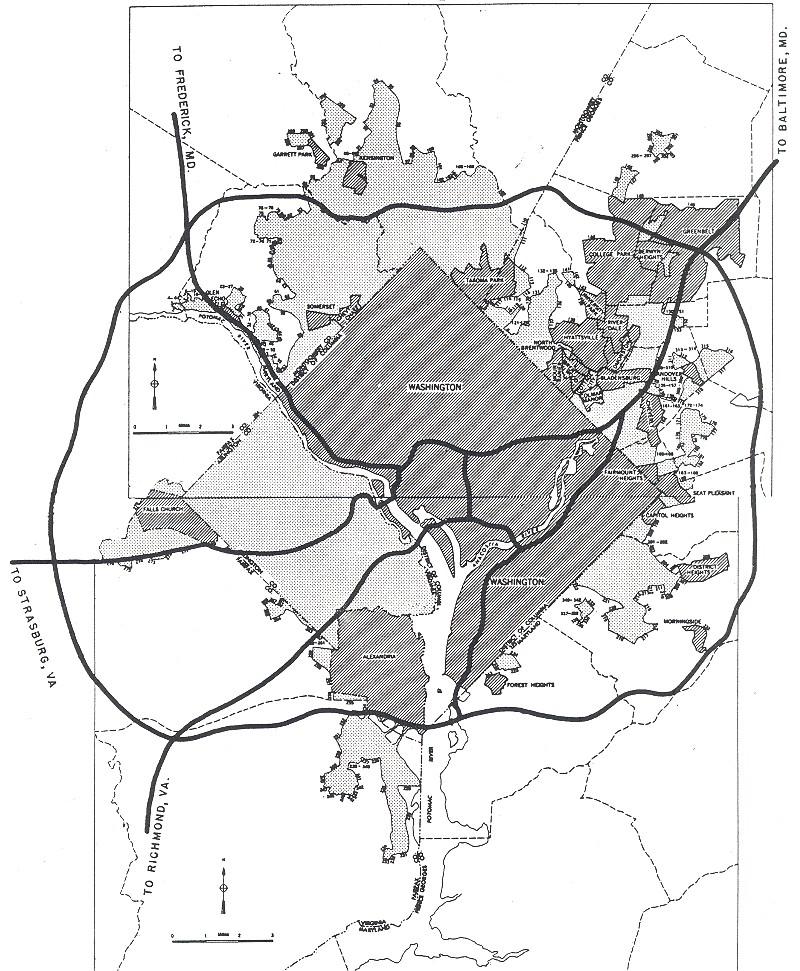 Interstates in today's terms I-66 (not built in downtown) I-95 (built further west north of downtown; not built from downtown north to I-495; became I-395 south from downtown I-270 (not built inside I-495) I-295 I-495 I-695